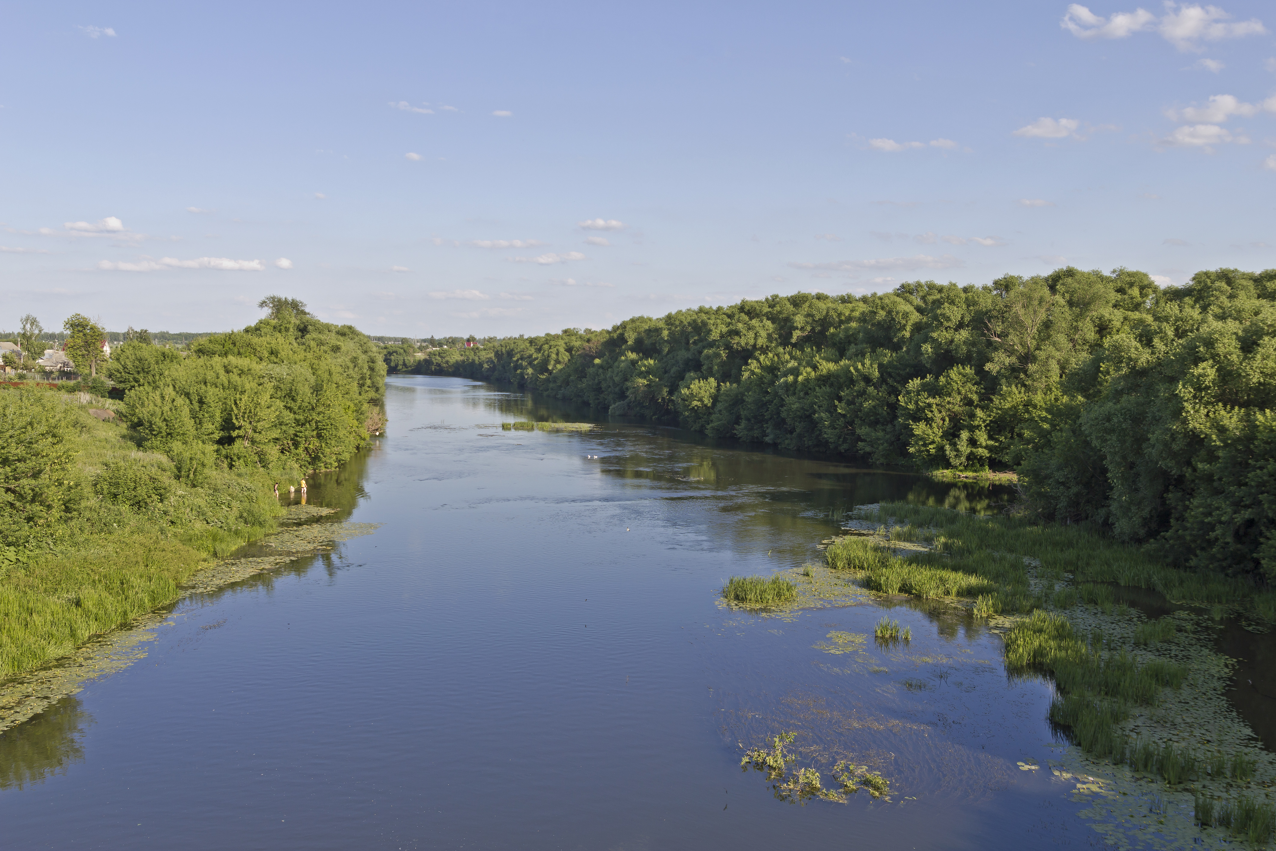 Don River in Dankov, Dankovsky District, Lipetsk Oblast, Russia